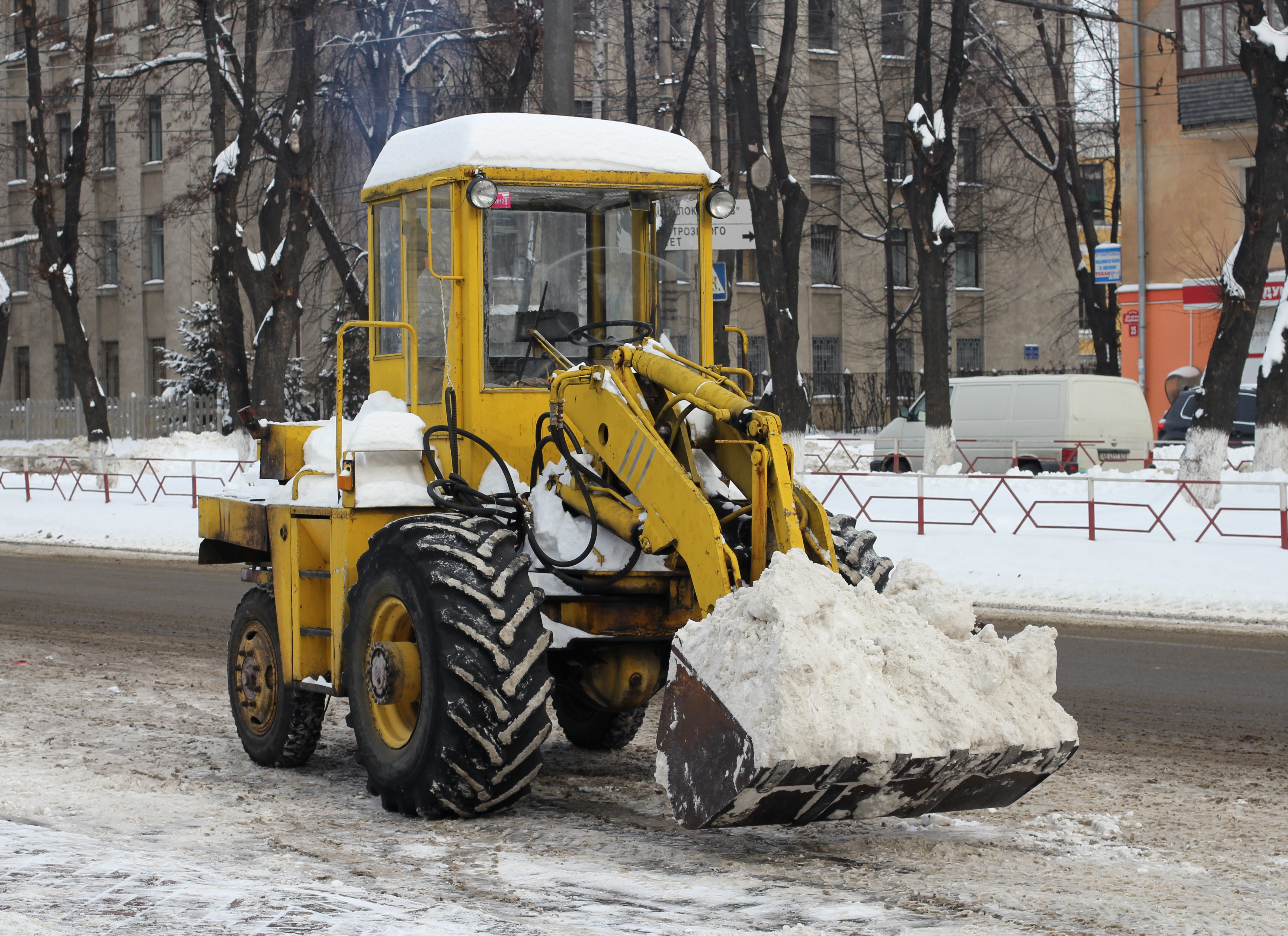 Customized snow removal vehicle in Vinnitsa, Ukraine.